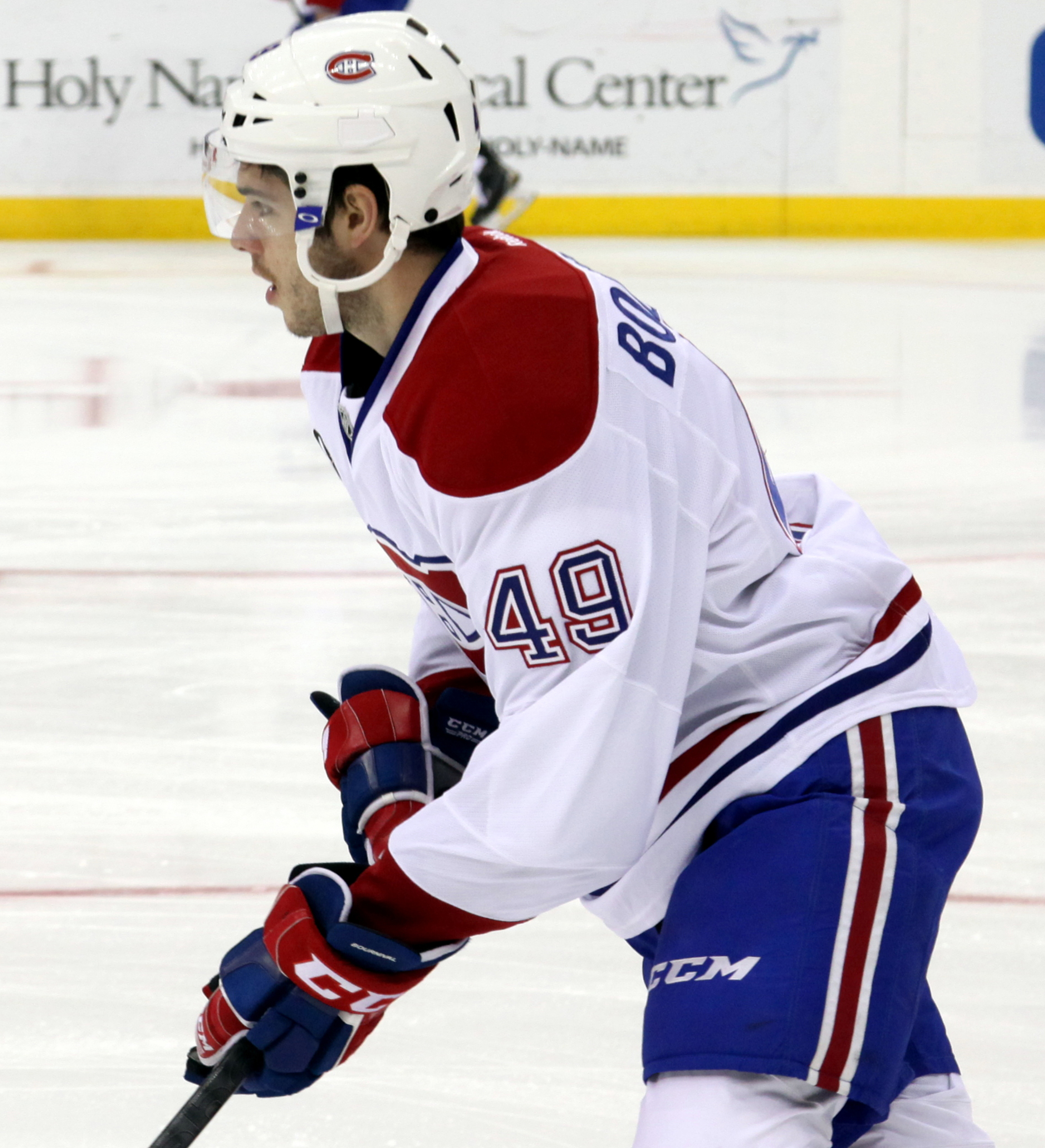 Michael Bournival in January 2015.